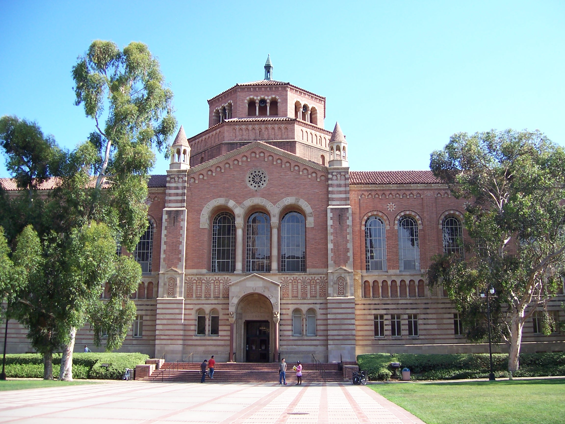 Powell_Library,_UCLA